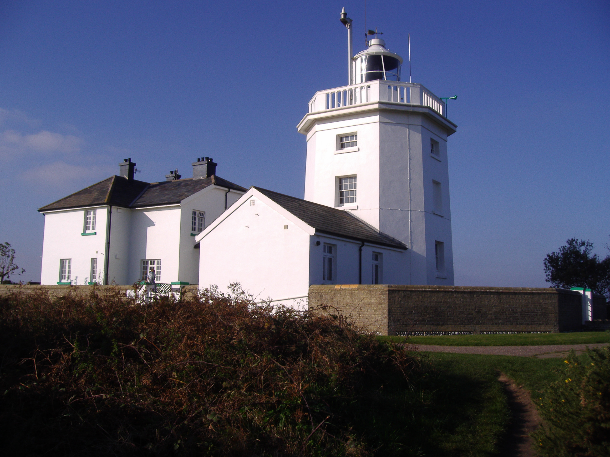 A Digital Photograph of Cromer Lighthouse taken on the 23rd October 2007 by stavros1